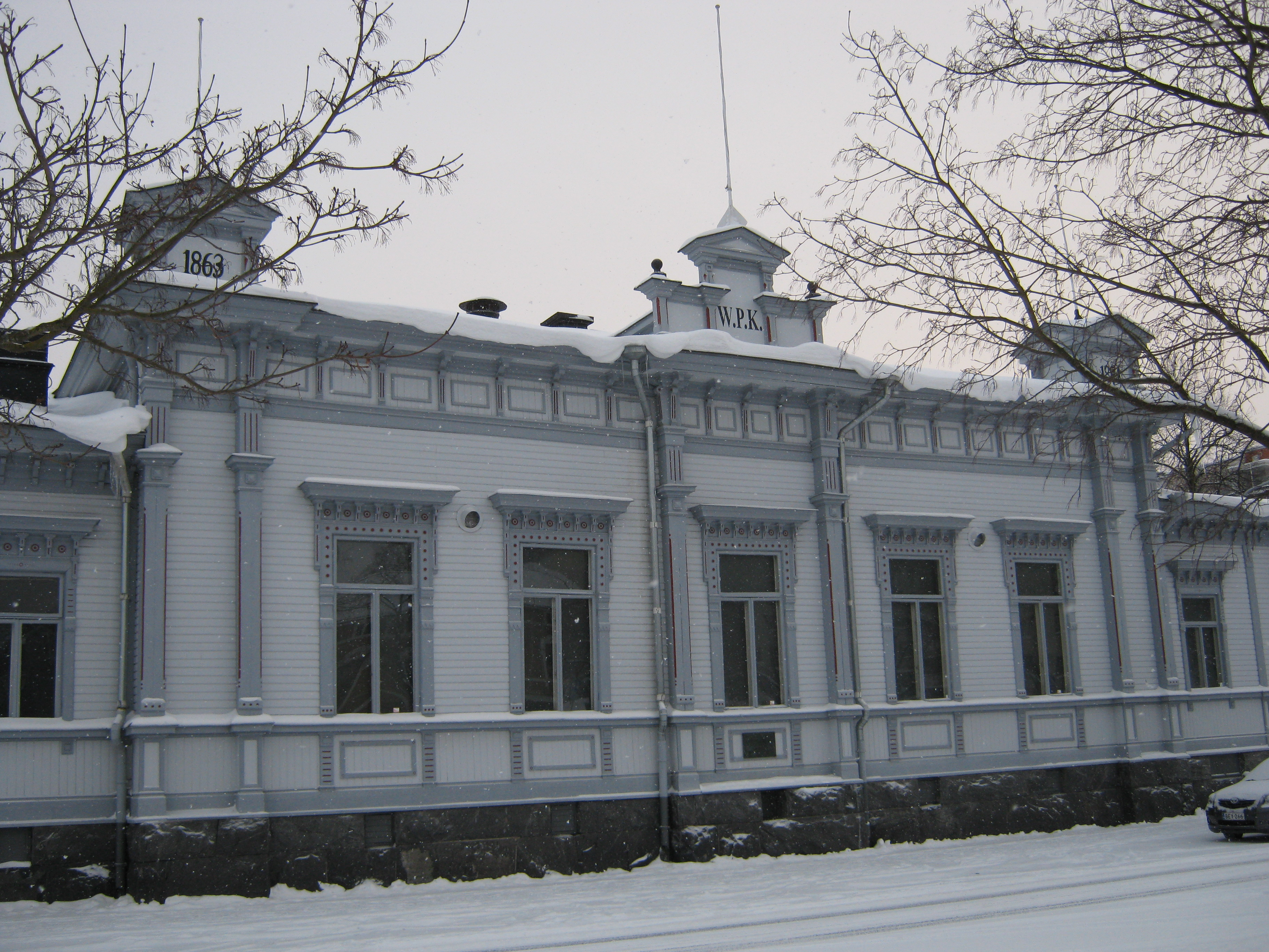 The old fire station of Pori volunteer fire department, Finland.